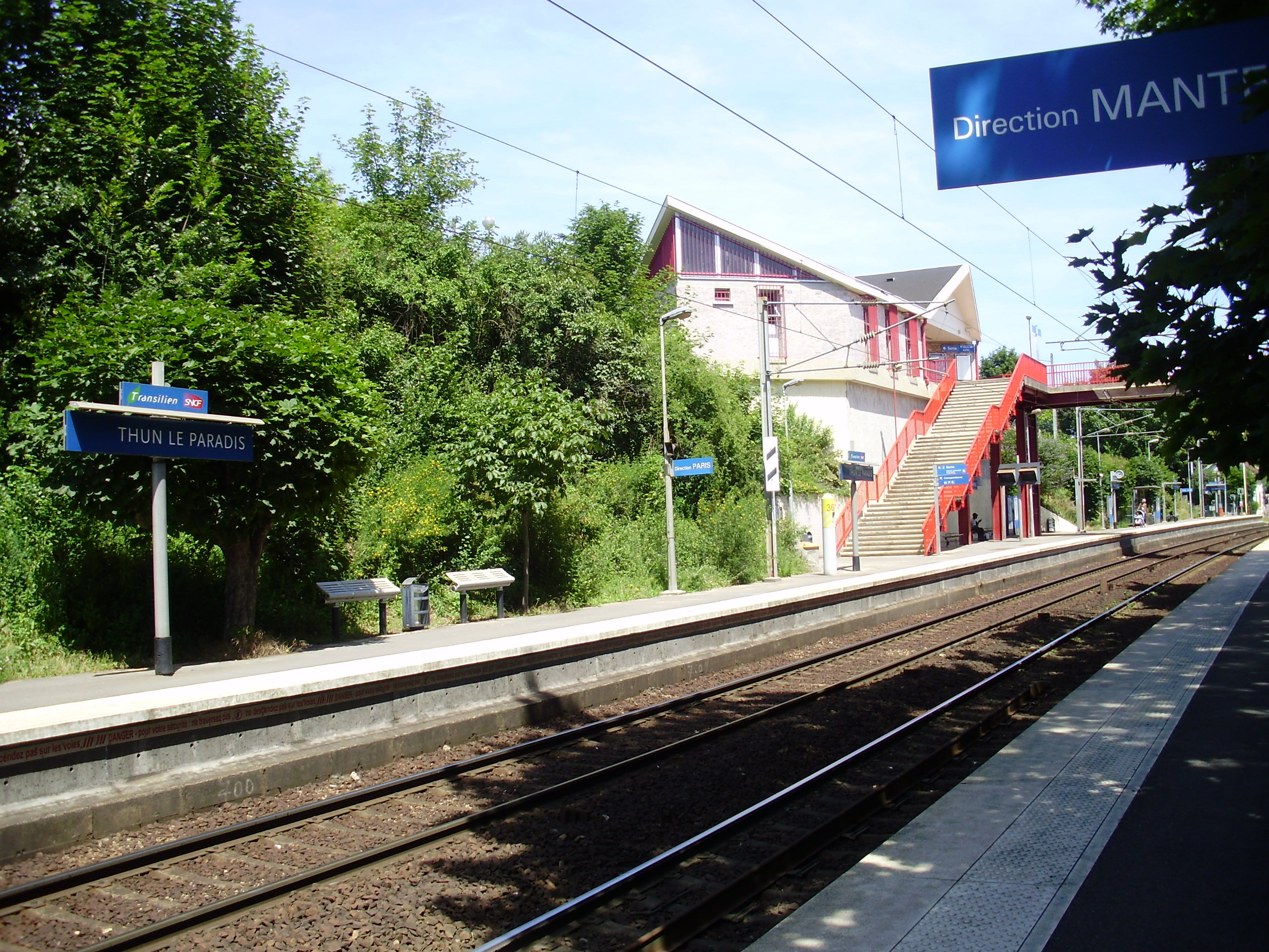 Thun-le-Paradis station, in Meulan, Yvelines, France (view of the platform to Paris from the platform to Mantes-la-Jolie)